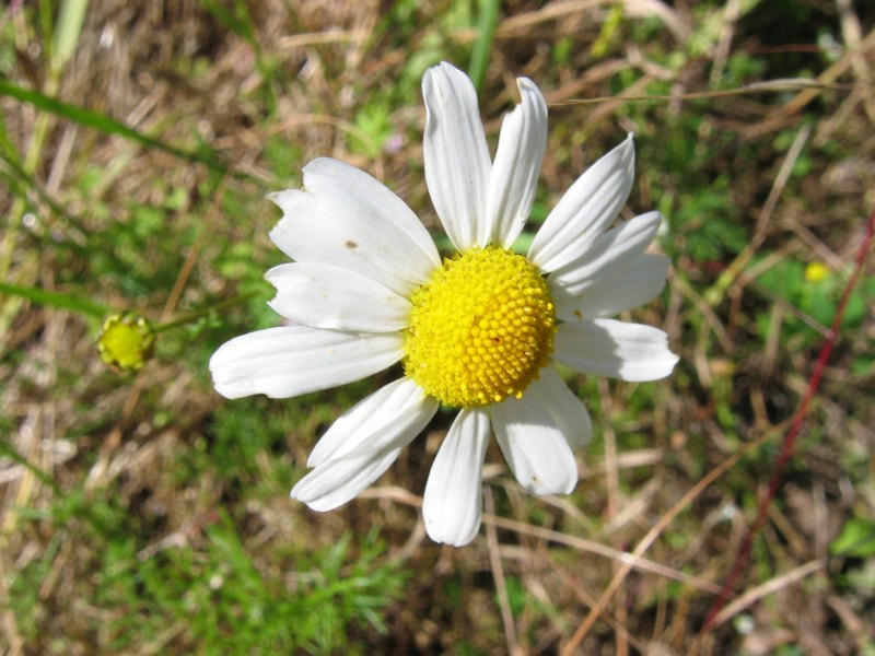 Tripleurospermum perforatm 6.7.2004 Warnow-Wiesen Kristian Peters